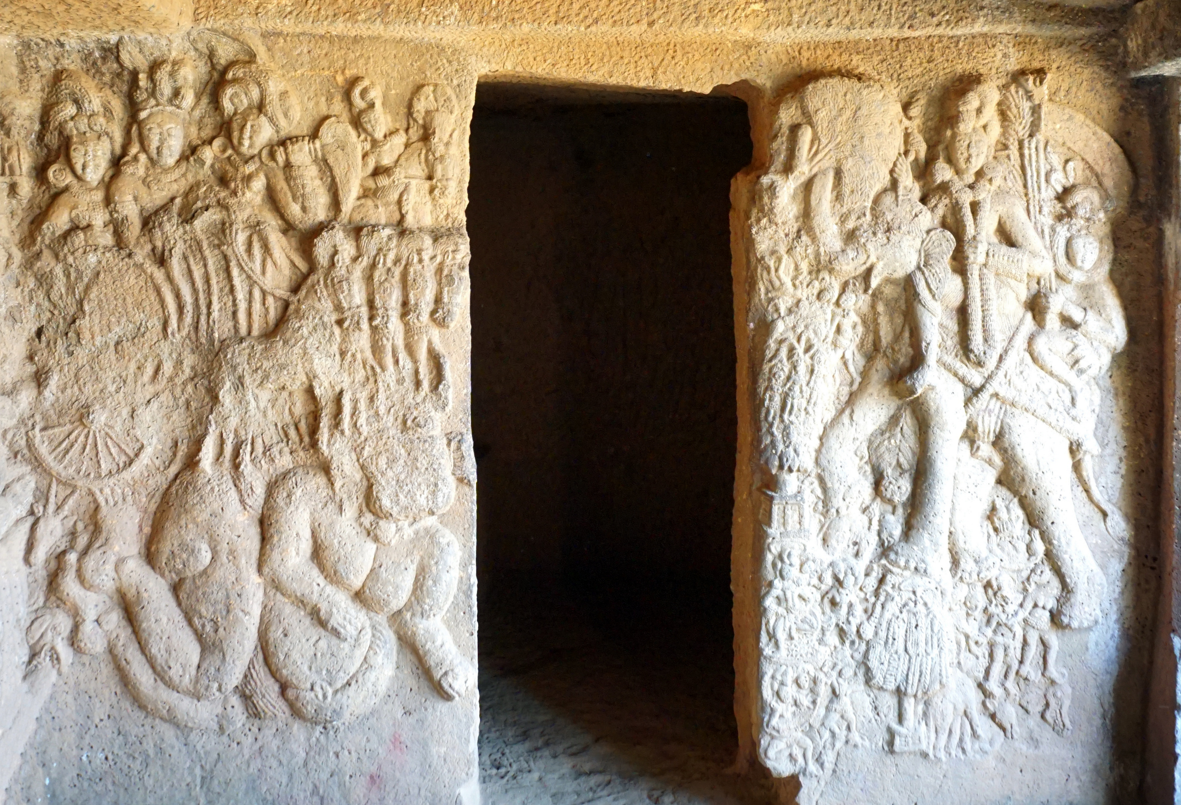 Guardians Surya and Indra at the Bhaja Caves